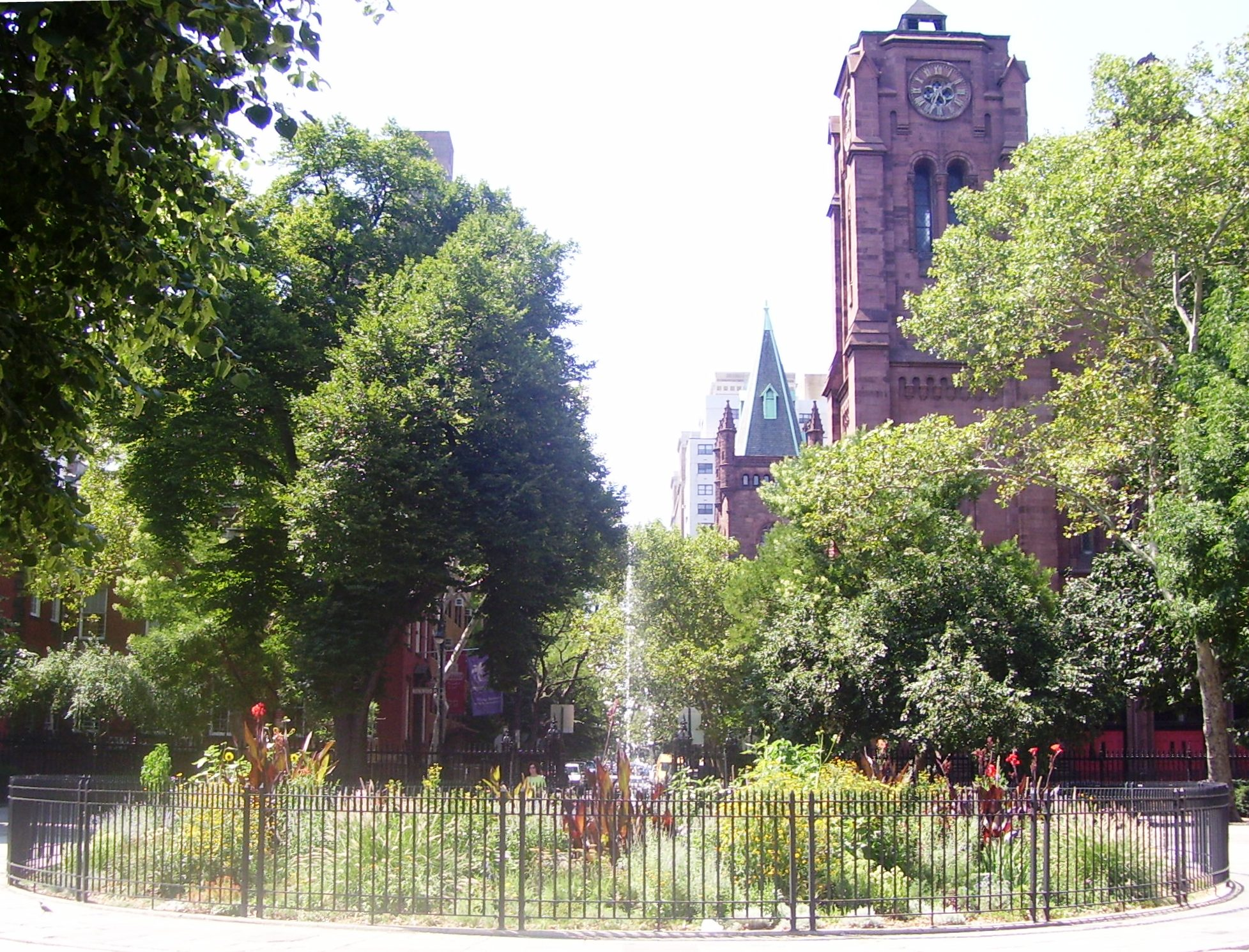 The fountain at the center of the western half of Stuyvesant Square in Manhattan, New York City. (The park is bisected by Second Avenue.) In the background, St. George's Episcopal Church.